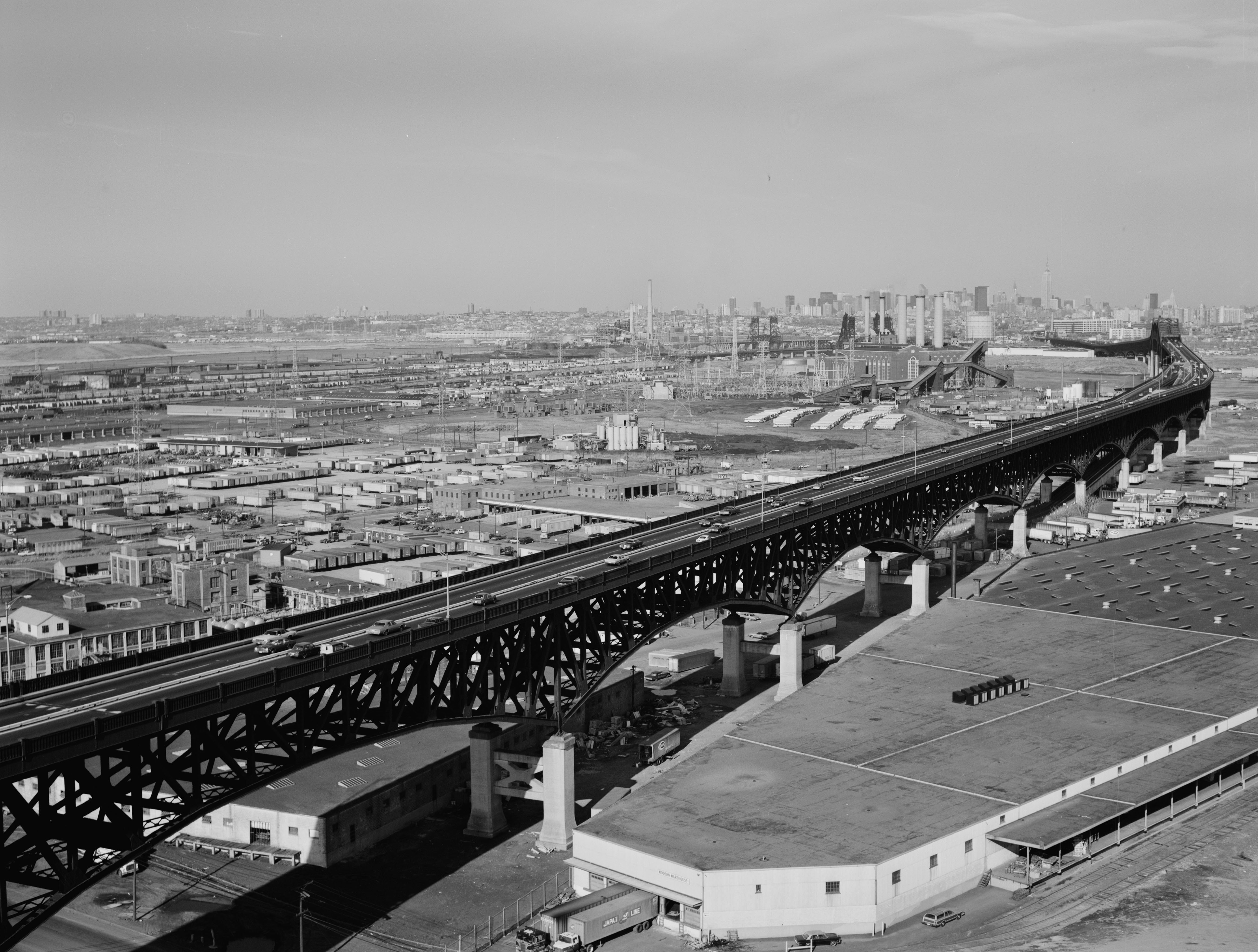 The Pulaski Skyway travels over the town of Kearny, New Jersey in this photo from 1978.